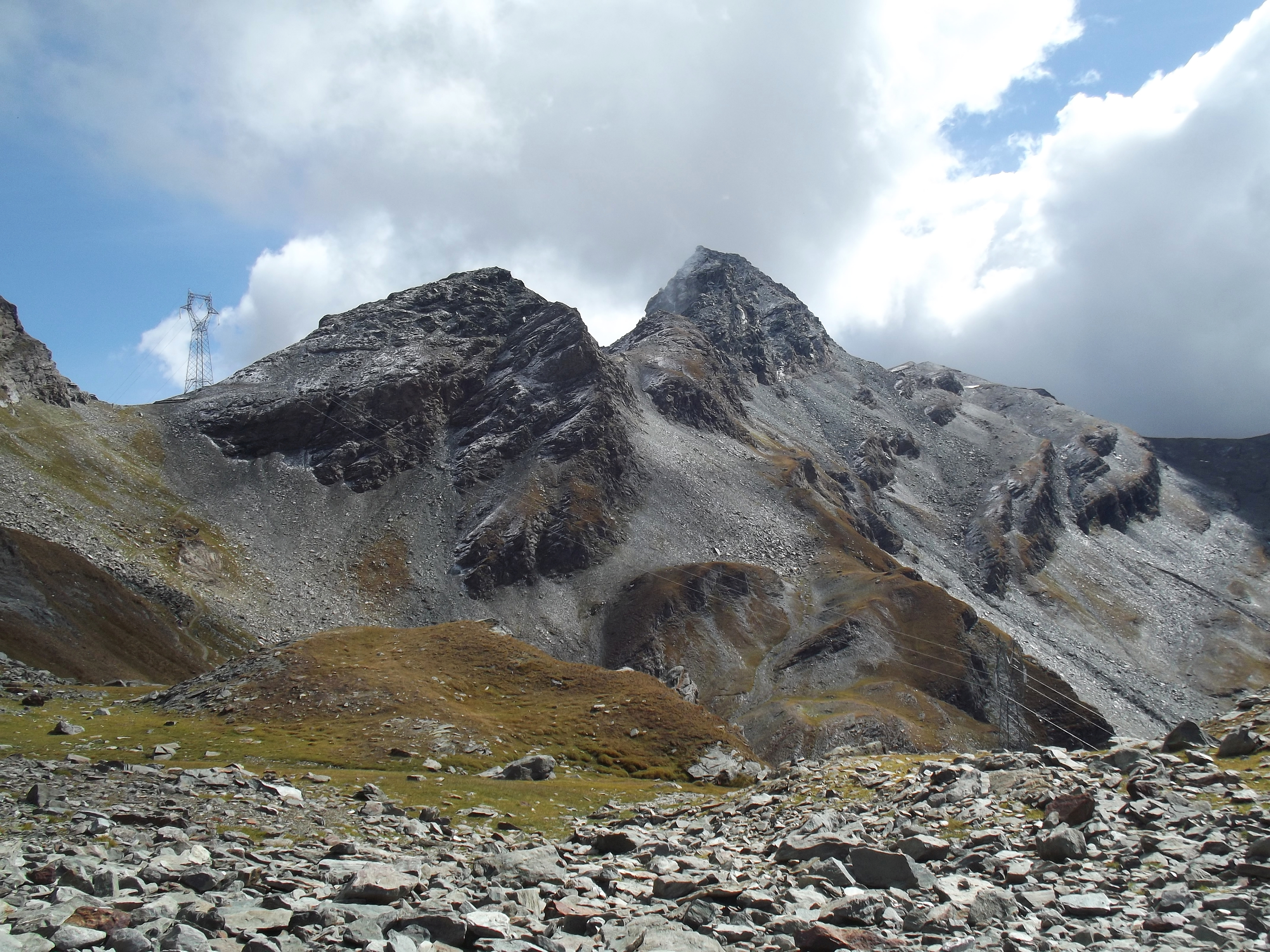 Bec-Cotasse and Col Fenêtre seen from Champorcher Valley (Aosta Valley, Italy)